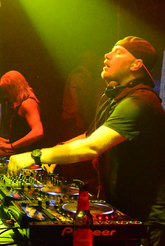 18.09.12 - Together. More pics at